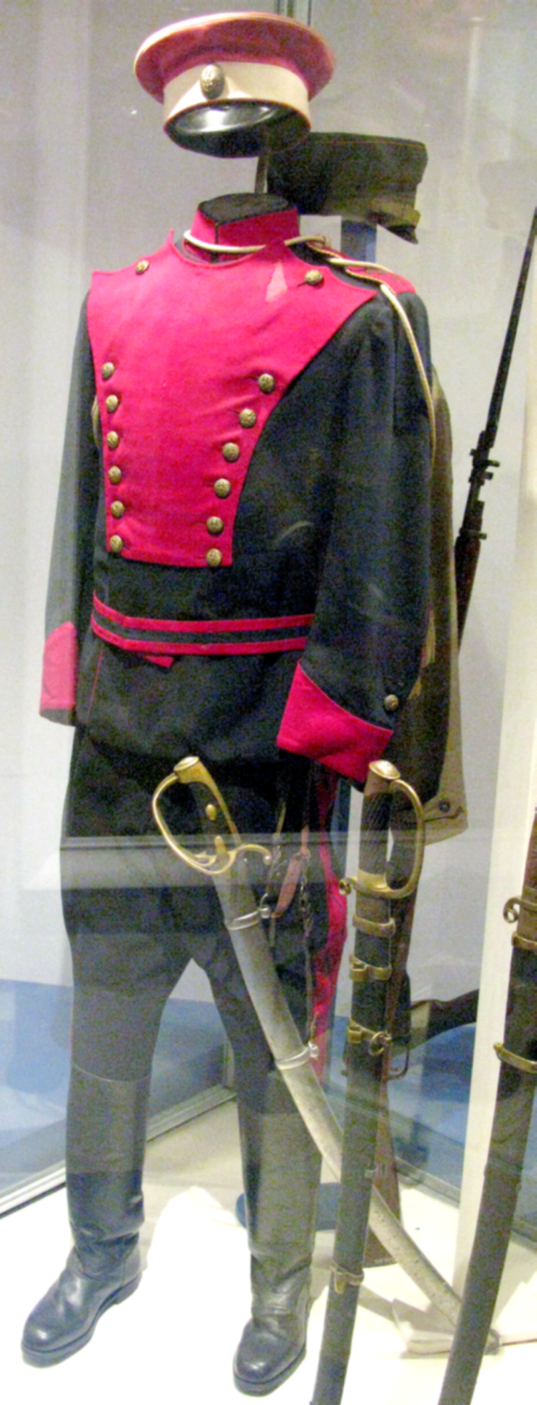 Parade Uniform of Polish Uhlan of Puławski Legion